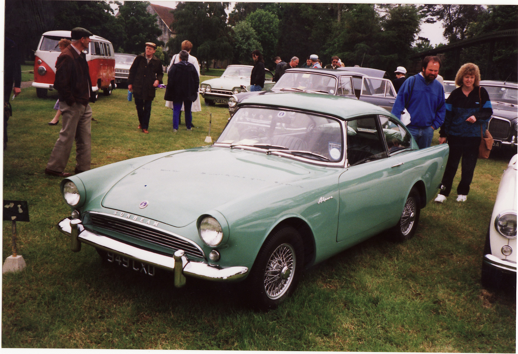 Spotted at a Rally at the National Motor Museum, Beaulieu in 1991.